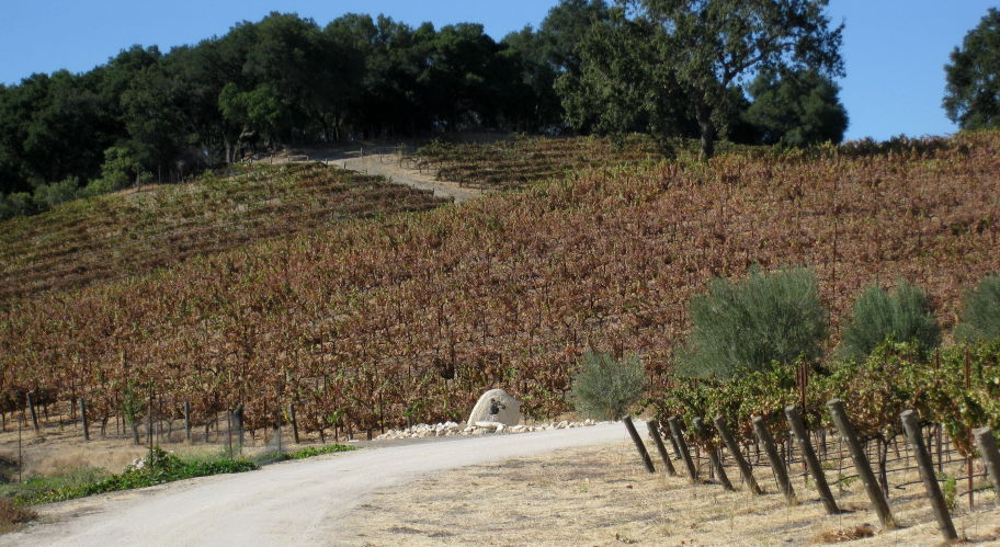 Image of Tablas Creek Vineyards